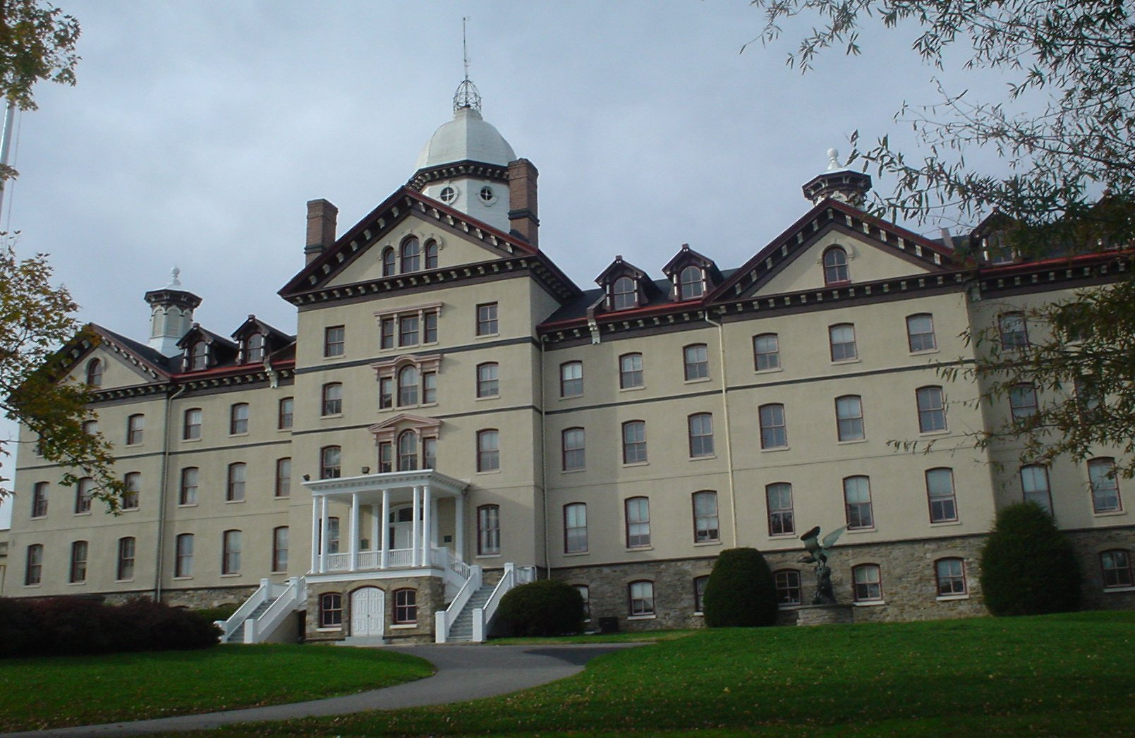 Old Main on the present day Widener University Campus, in Delaware County, Pennsylvania. Note that this is *not* the Old Main of the Crozer Theological Seminary which is on the other side of Chester and is also NRHP listed On the National Register of Historic Places.